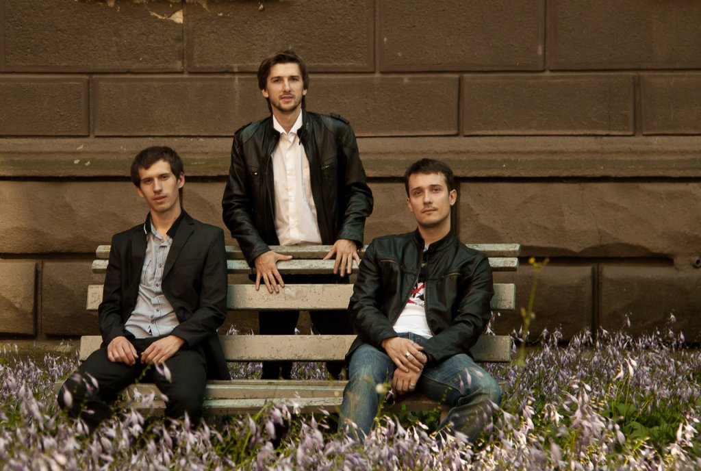 PICK-UP's new photo by amazing photographer Natali Sadovskaya!